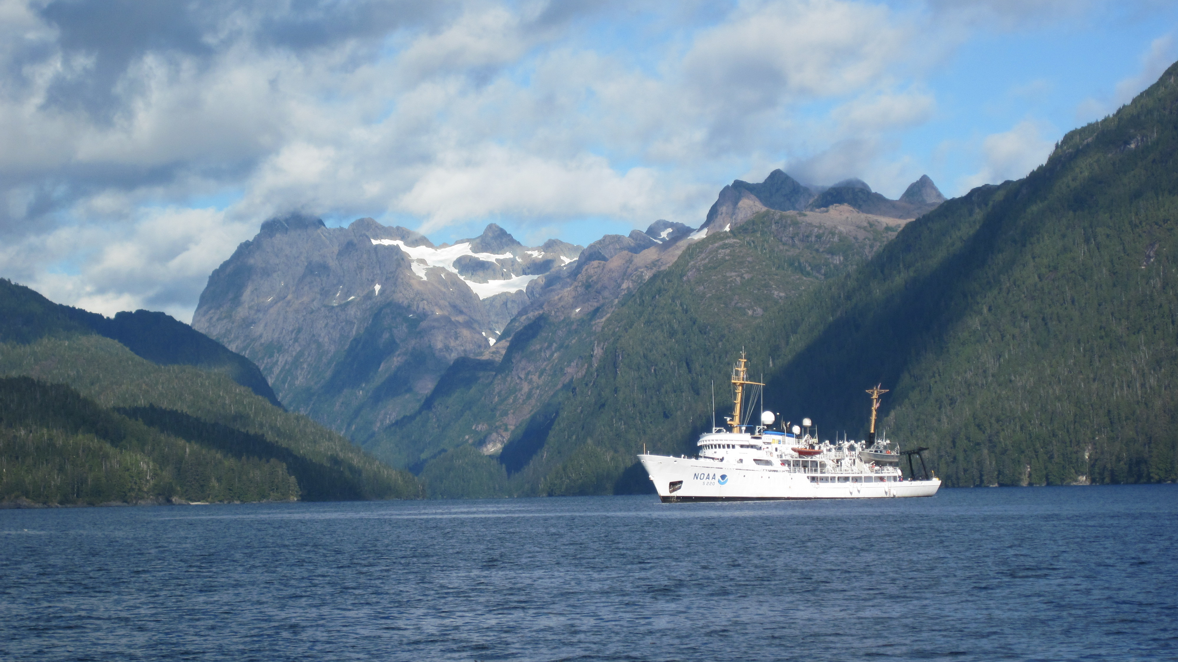 NOAA Ship FAIRWEATHER and the majestic peaks of Chatham Strait area. Image ID: ship5069, NOAA's Fleet Then and Now - Sailing for Science Collection Photo Date: 2011 September 25 Credit: Crew and Officers of NOAA Ship FAIRWEATHER